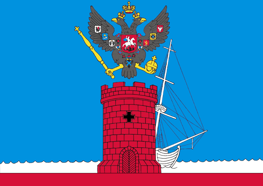 Flag of Feodosiya, Russia.